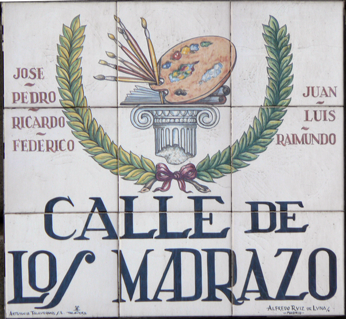 Sign of Calle de los Madrazo (street, Centro district) in Madrid (Spain).